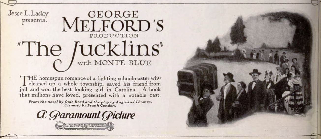 Advertisement for the American drama film The Jucklins (1921), on page 10 of the January 22, 1921 Exhibitors Herald.